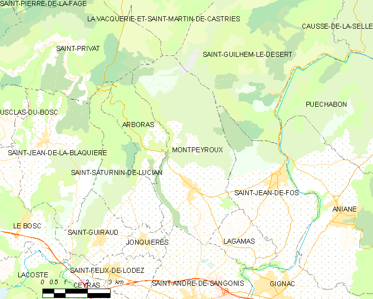 Map commune FR insee code 34173.png - Montpeyroux (Hérault)